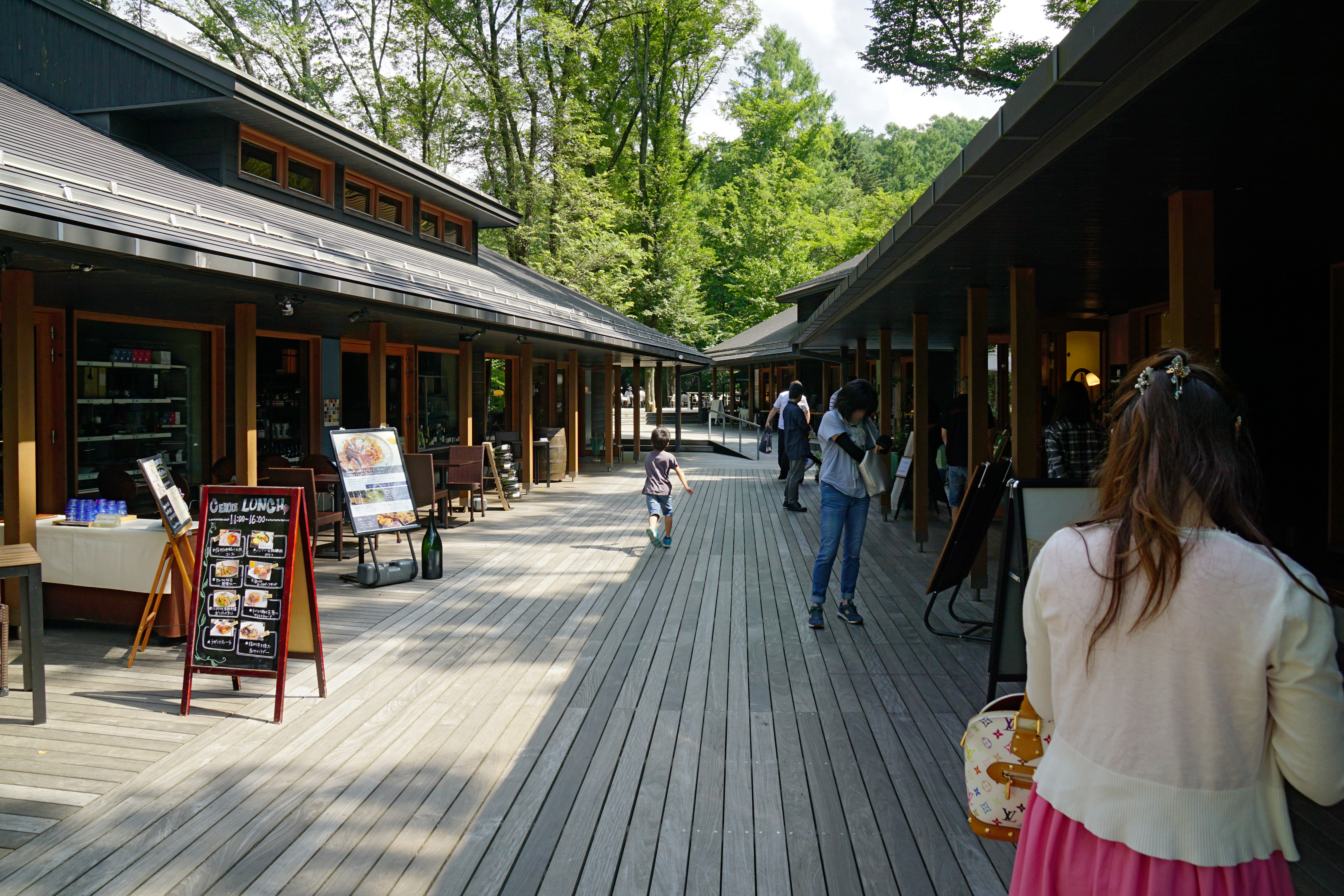 Harunire Terrace in Karuizawa, Nagano prefecture, Japan.